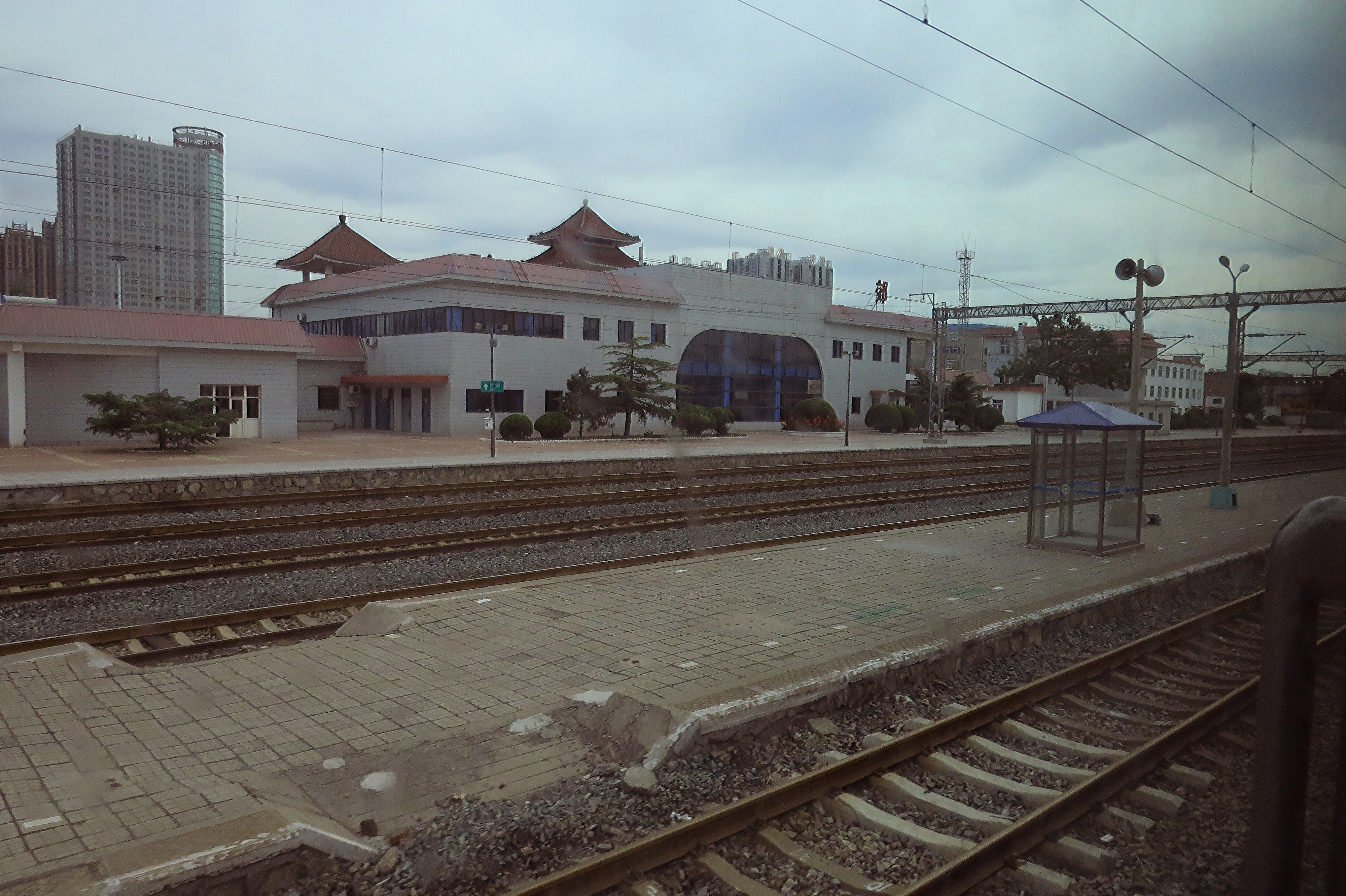 Taken from Y509.